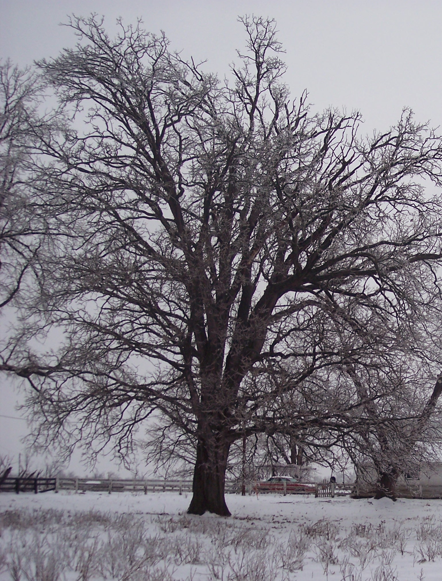 Bur Oak in winter